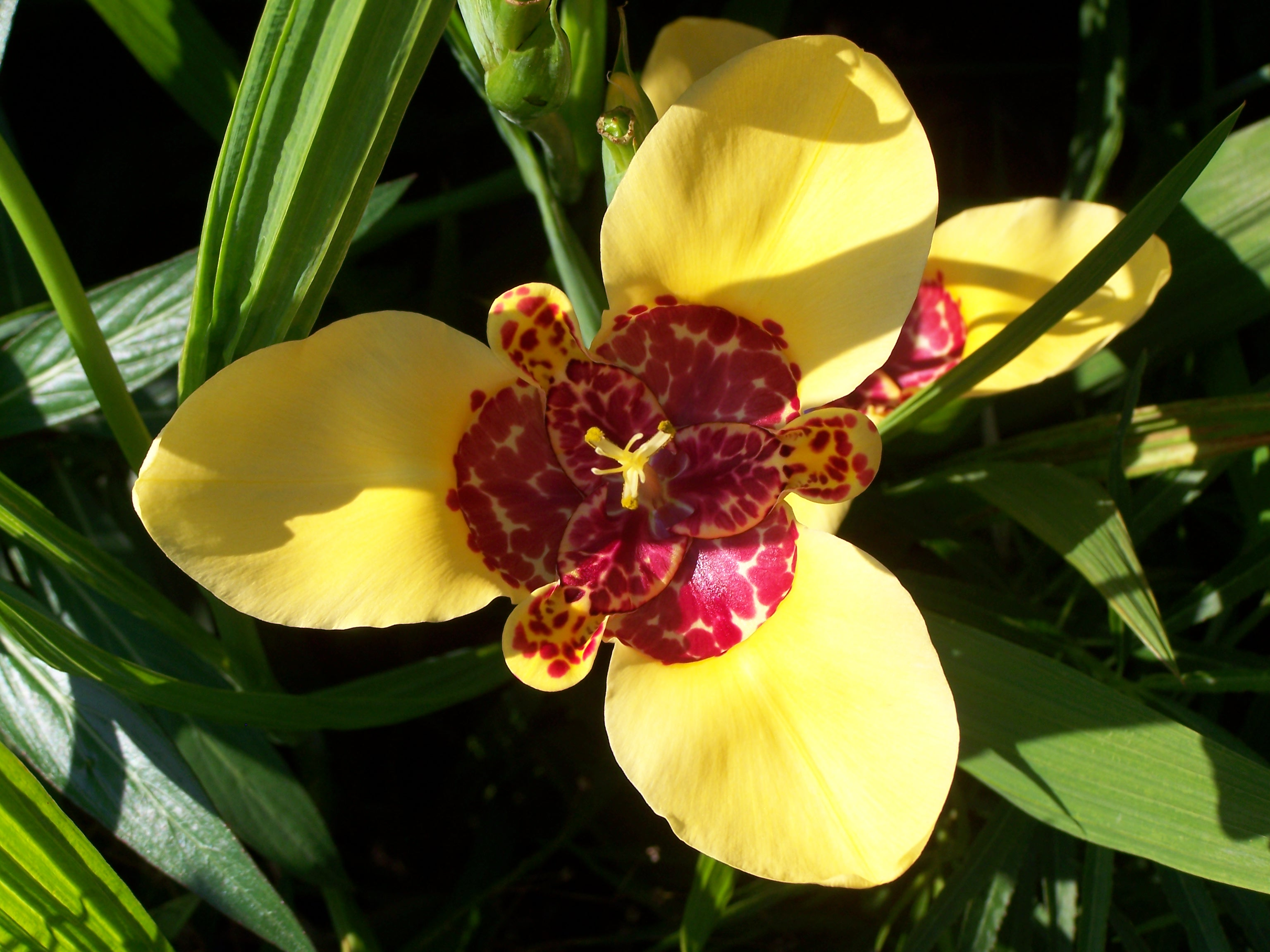 Tigridia flower in a garden in Germany, presumably a Tigridia pavonia 'Canariensis'